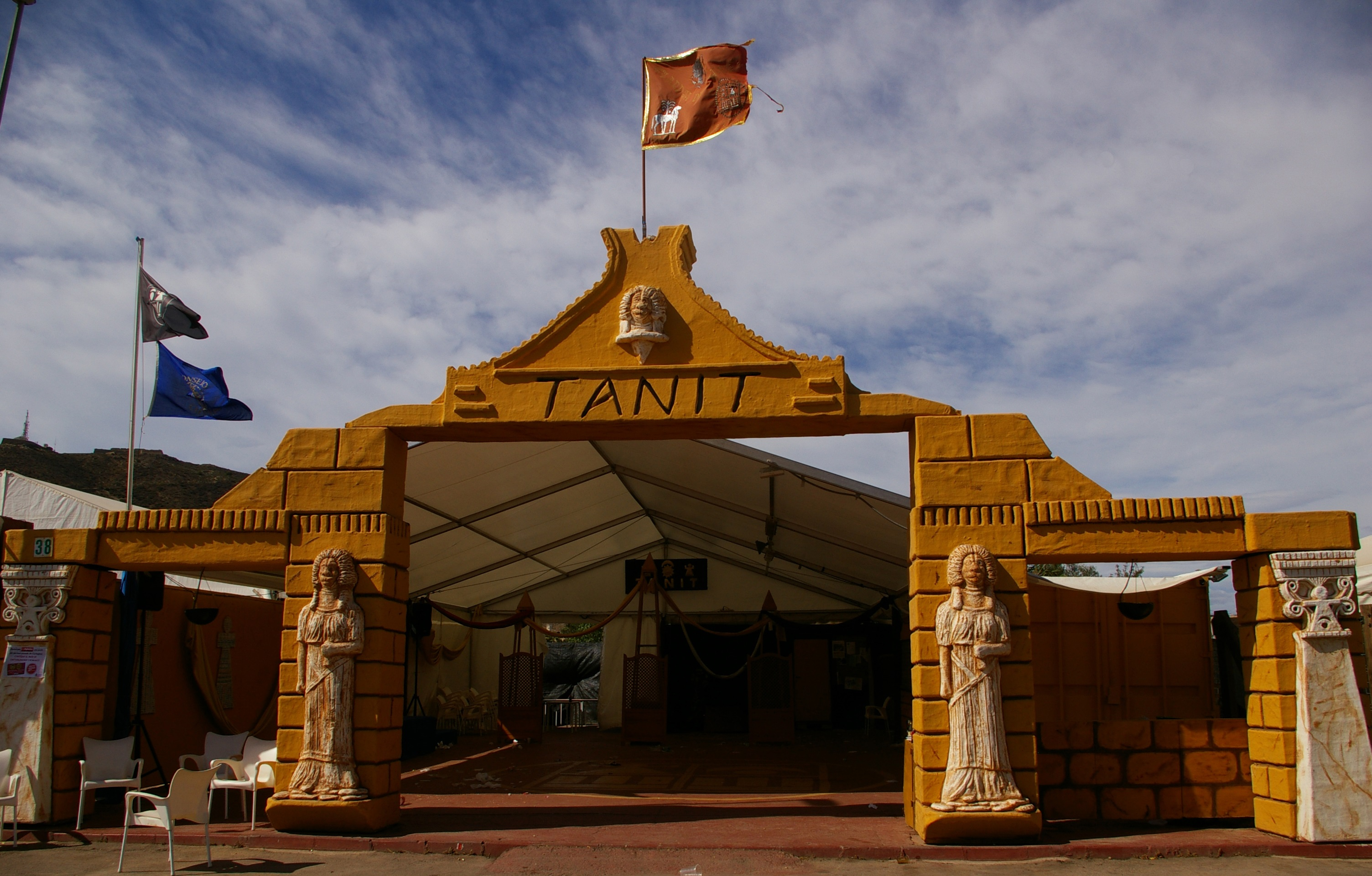 Carthaginian Troop "Tanit" barracks in the festive camp of Carthaginians and Romans (Cartagena, Spain). Edited to remove the watermark.